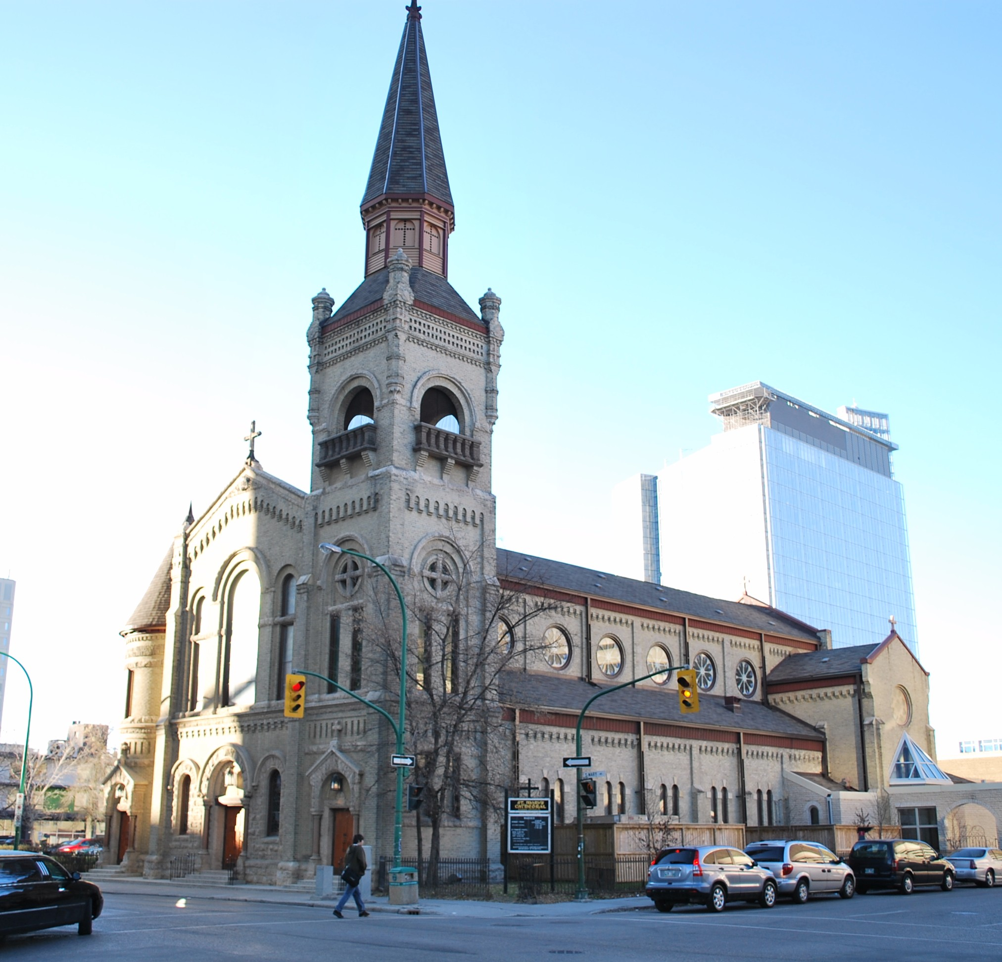 St. Mary's Roman Catholic Cathedral,Winnipeg, Manitoba. In the distance is the new Manitoba Hydro Tower.